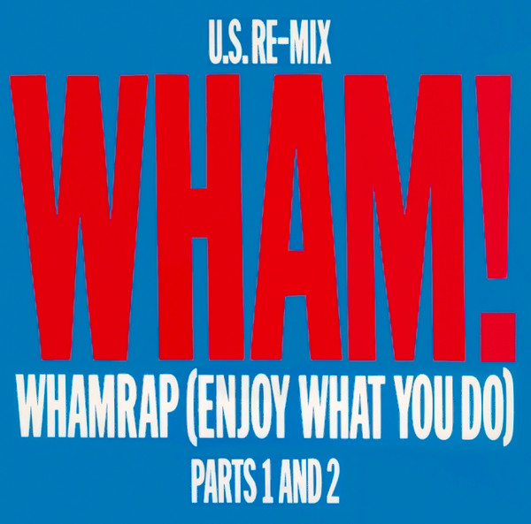 Front cover of the 1983 UK re-release of "Wham Rap (Enjoy What You Do)" by Wham